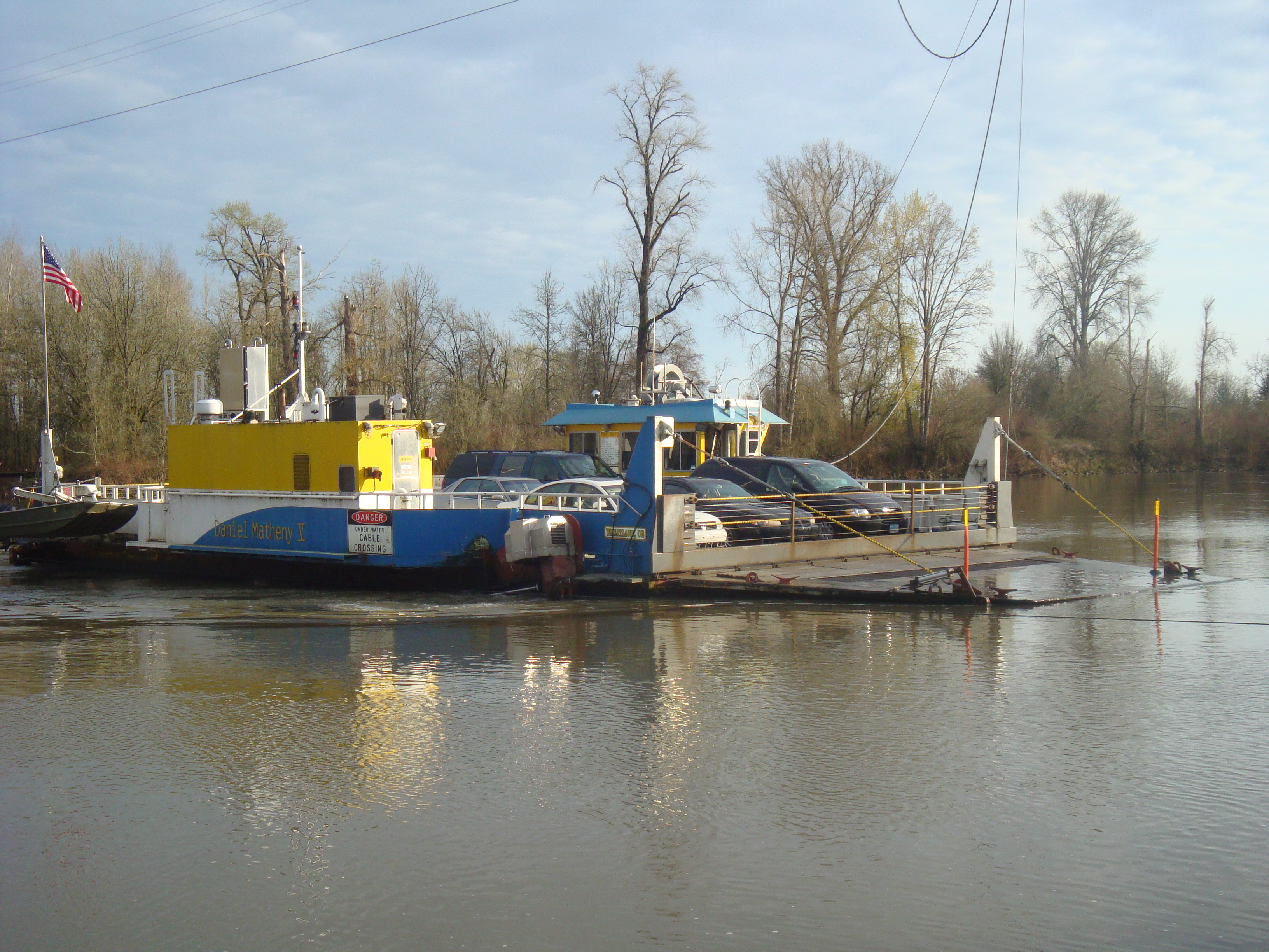 Wheatland Ferry crossing the Willamette River